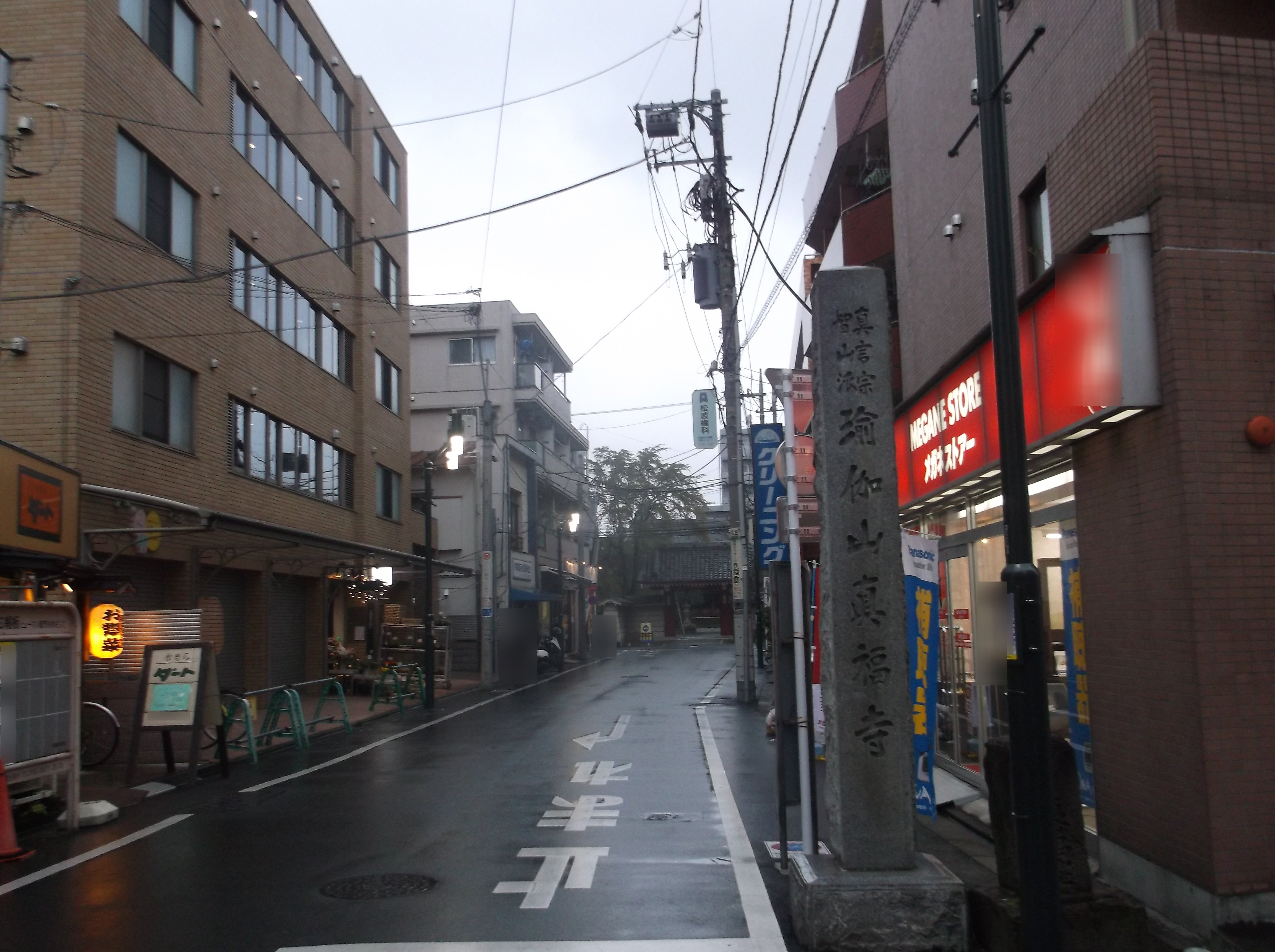 =A photo of the entrance of Shinpukuji Temple,Yoga,Setagaya-ku,Tokyo,Japan.